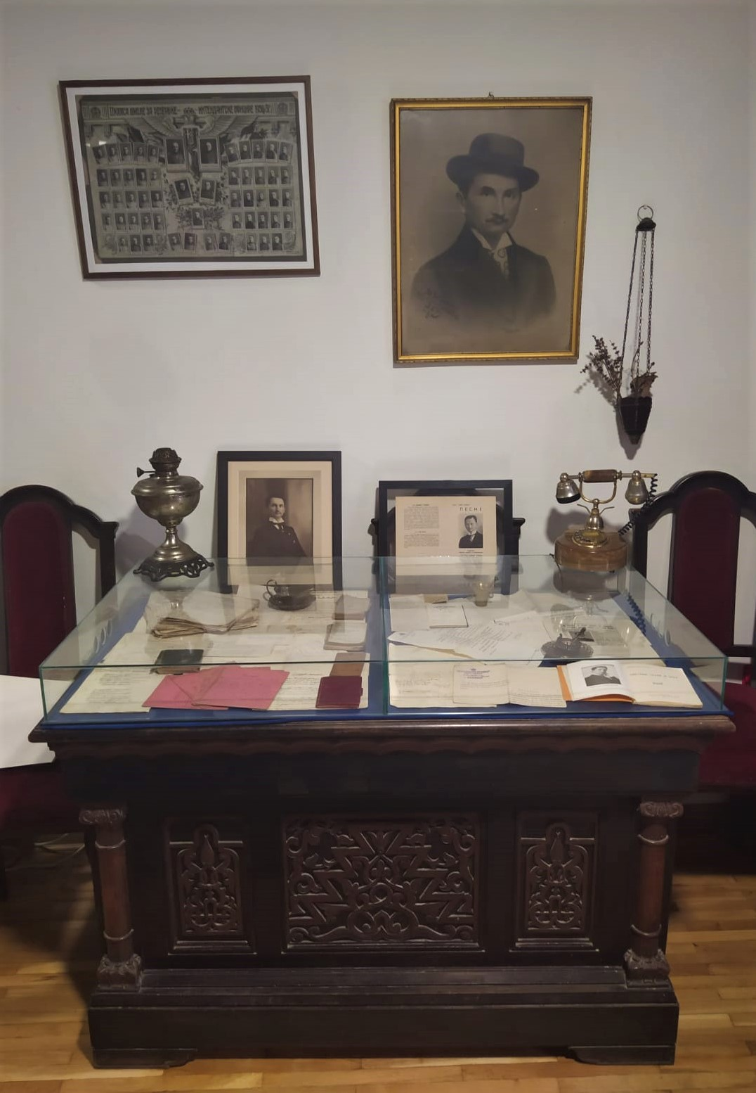 Legacy of Vojislav Ilić Mlađi in the Society for Culture, Art and International Cooperation Adligat in Belgrade, Serbia. Српски (ћирилица): Део легата Војислава Илића Млађег, његов сто, фотографије, белешке, рукописи. Легат се налази у Удружењу за културу, уметност и међународну сарадњу „Адлигат” у Београду.